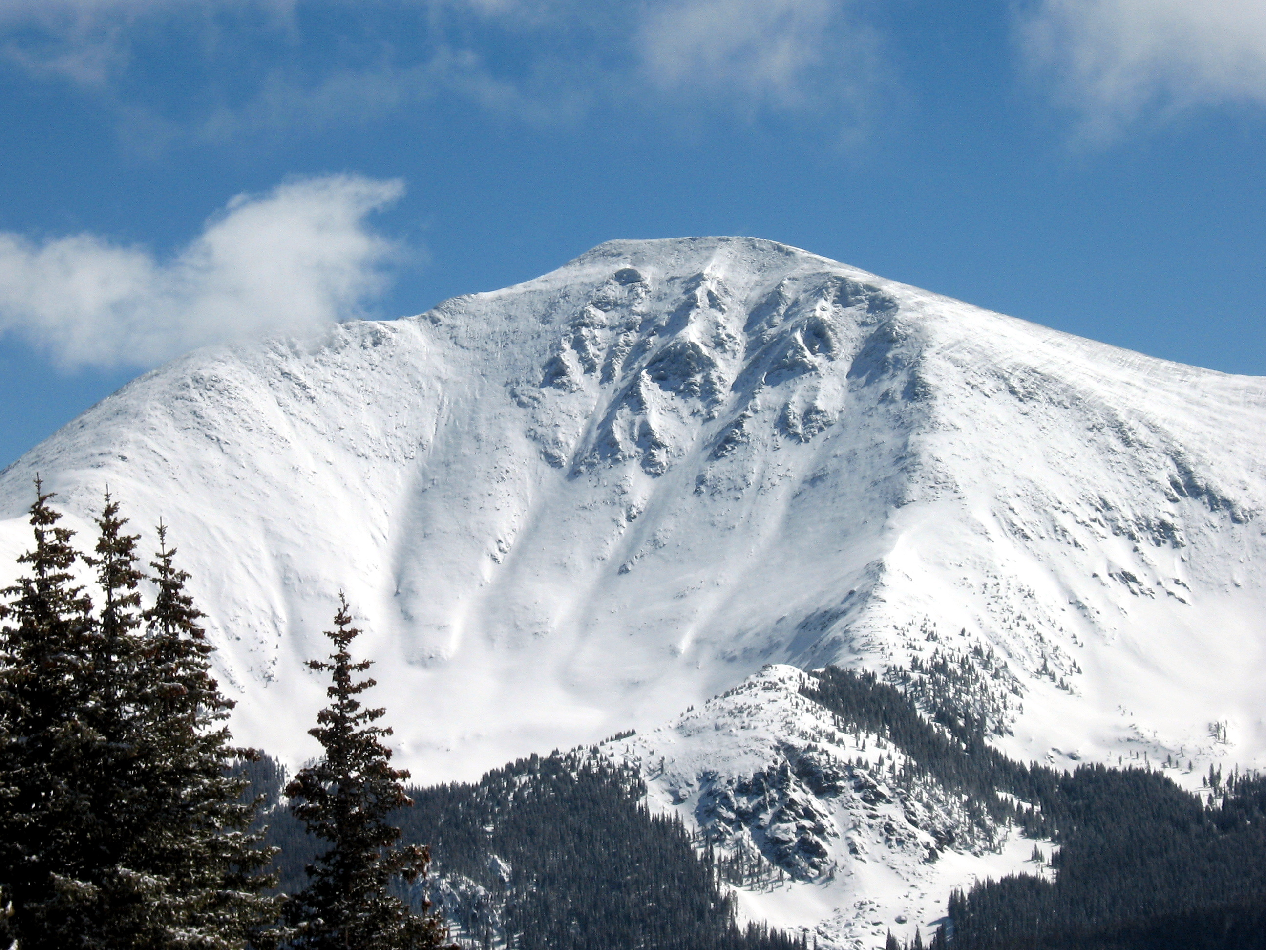 Parry Peak is a mountain in the Rocky Mountains, about 80 km west of Denver, Colorado. Photo: Tom Berrigan